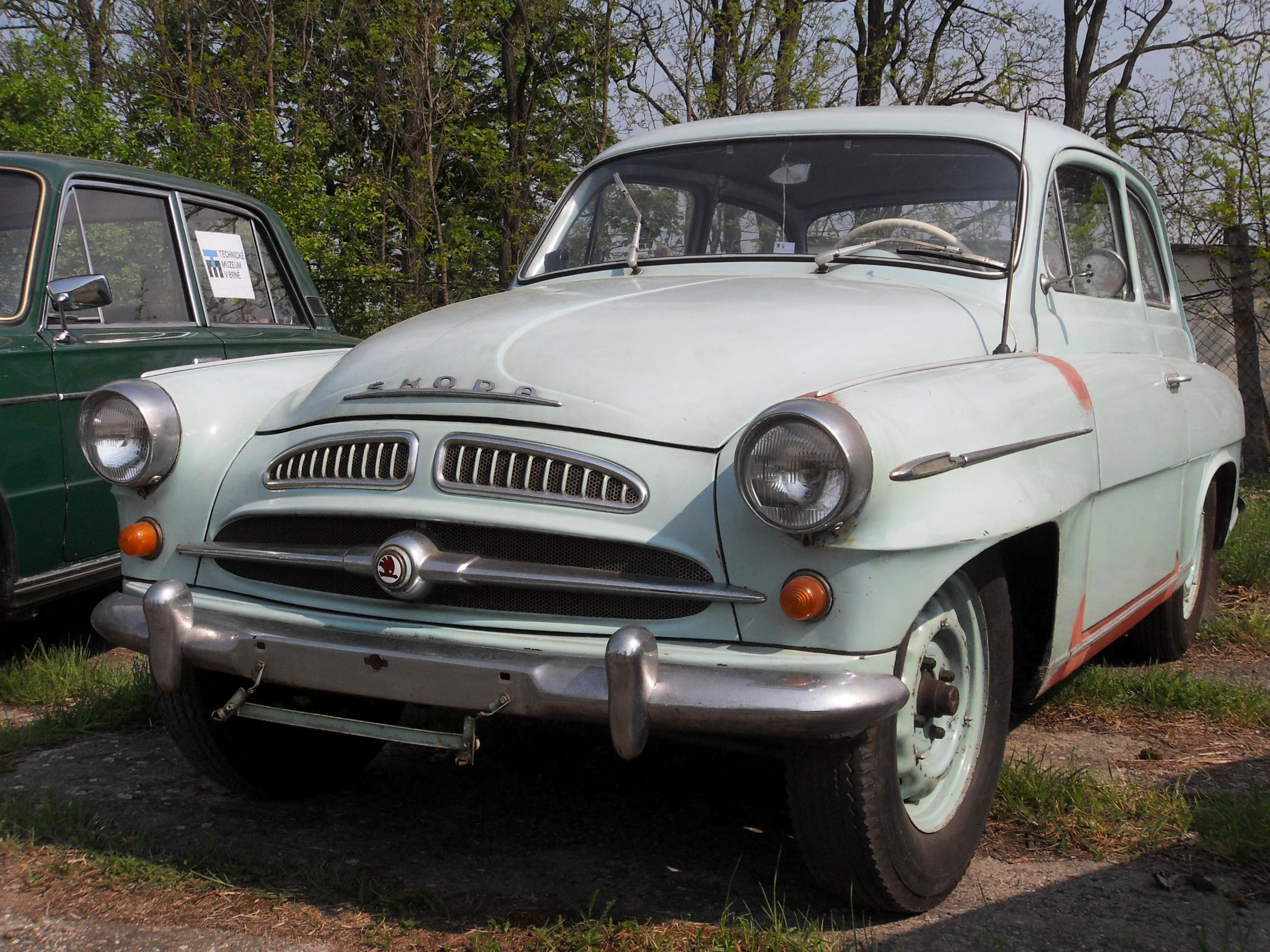 Škoda 440 Spartak, depository of Technical Museum in Brno, Czech Republic